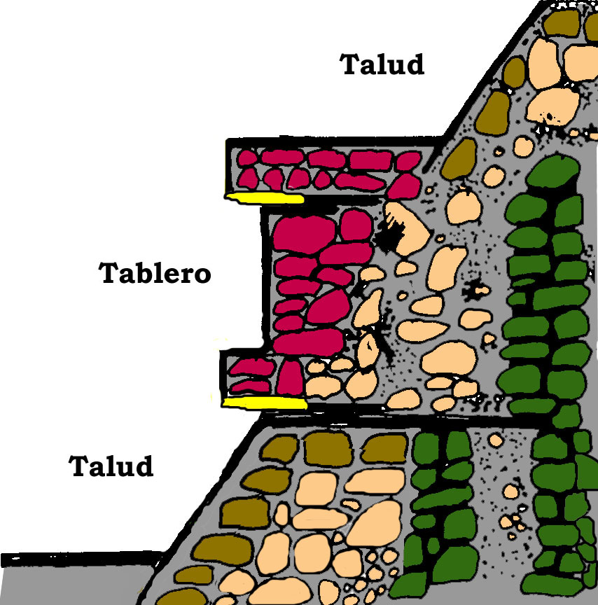 Construction of the Teotihuacan tablero talud system.